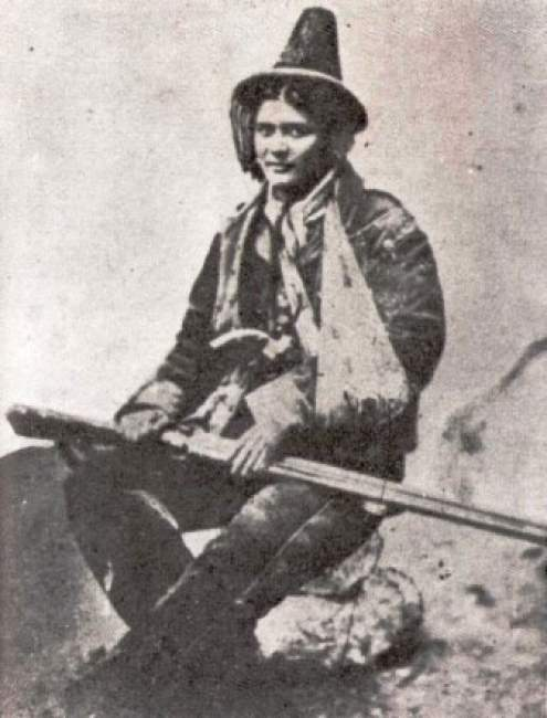 Maria Oliverio, woman from Calabria who led a group of brigands (social rebels and robbers), born 1840, died 1870